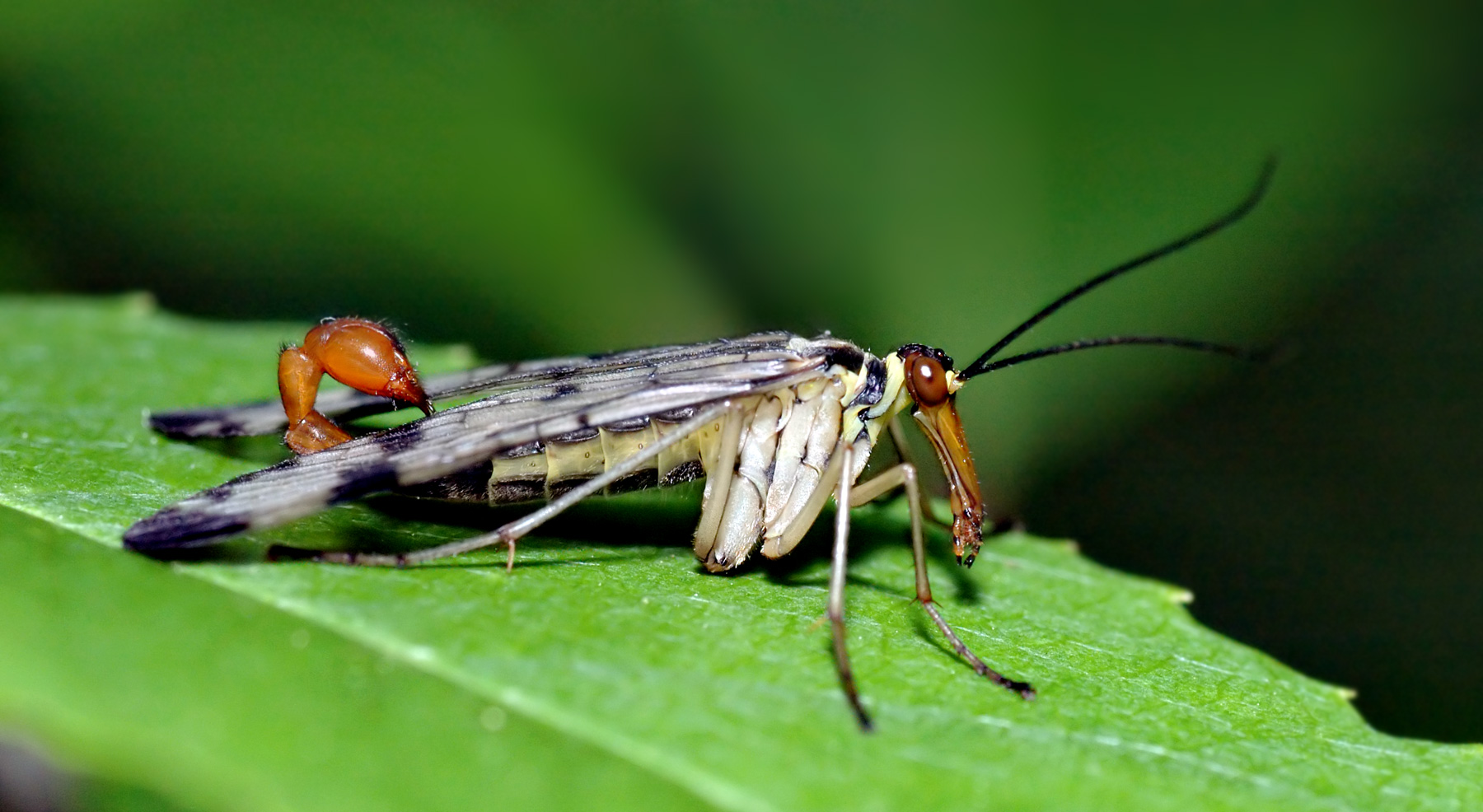 This image shows insect of the species Panorpa communis.